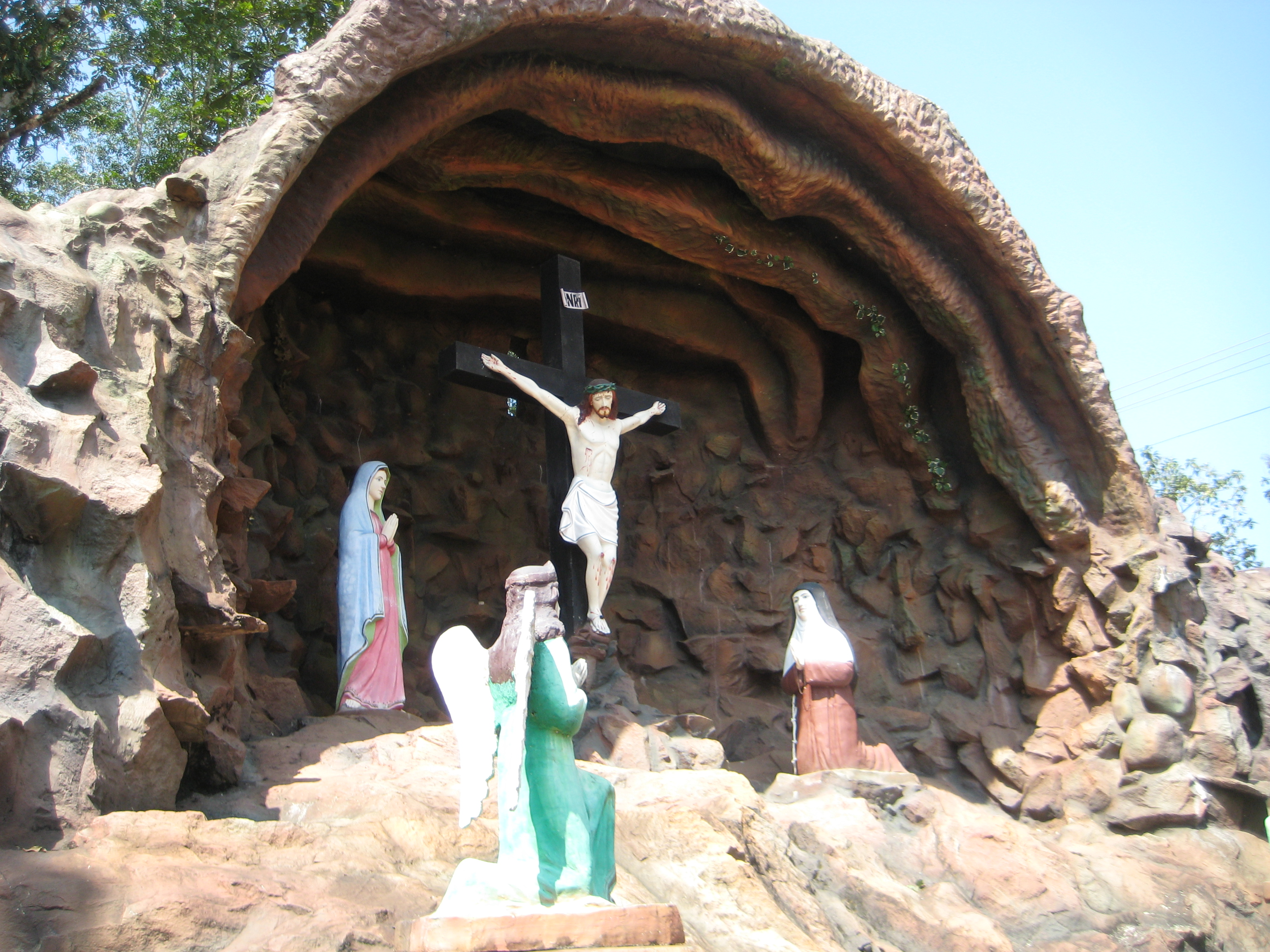 Grotto Location at Tomb of Saint Alphonsa, Bharananganam, Kottayam, Kerala, India